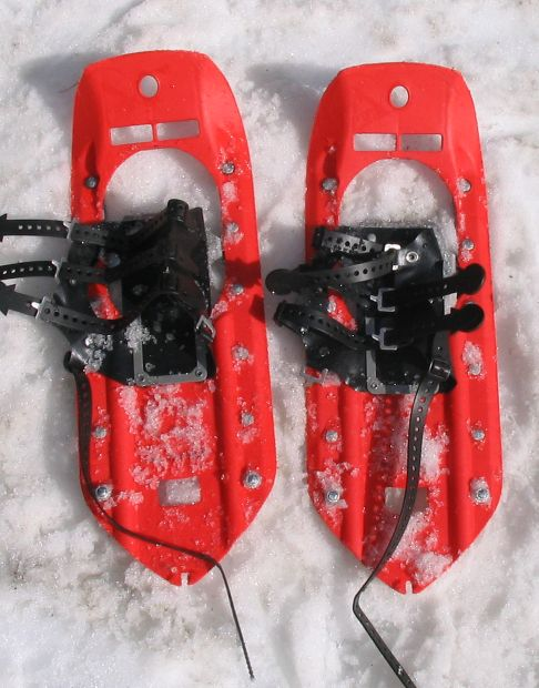 MSR brand snowshoes. I am the photographer and I place this photo into the public domain.